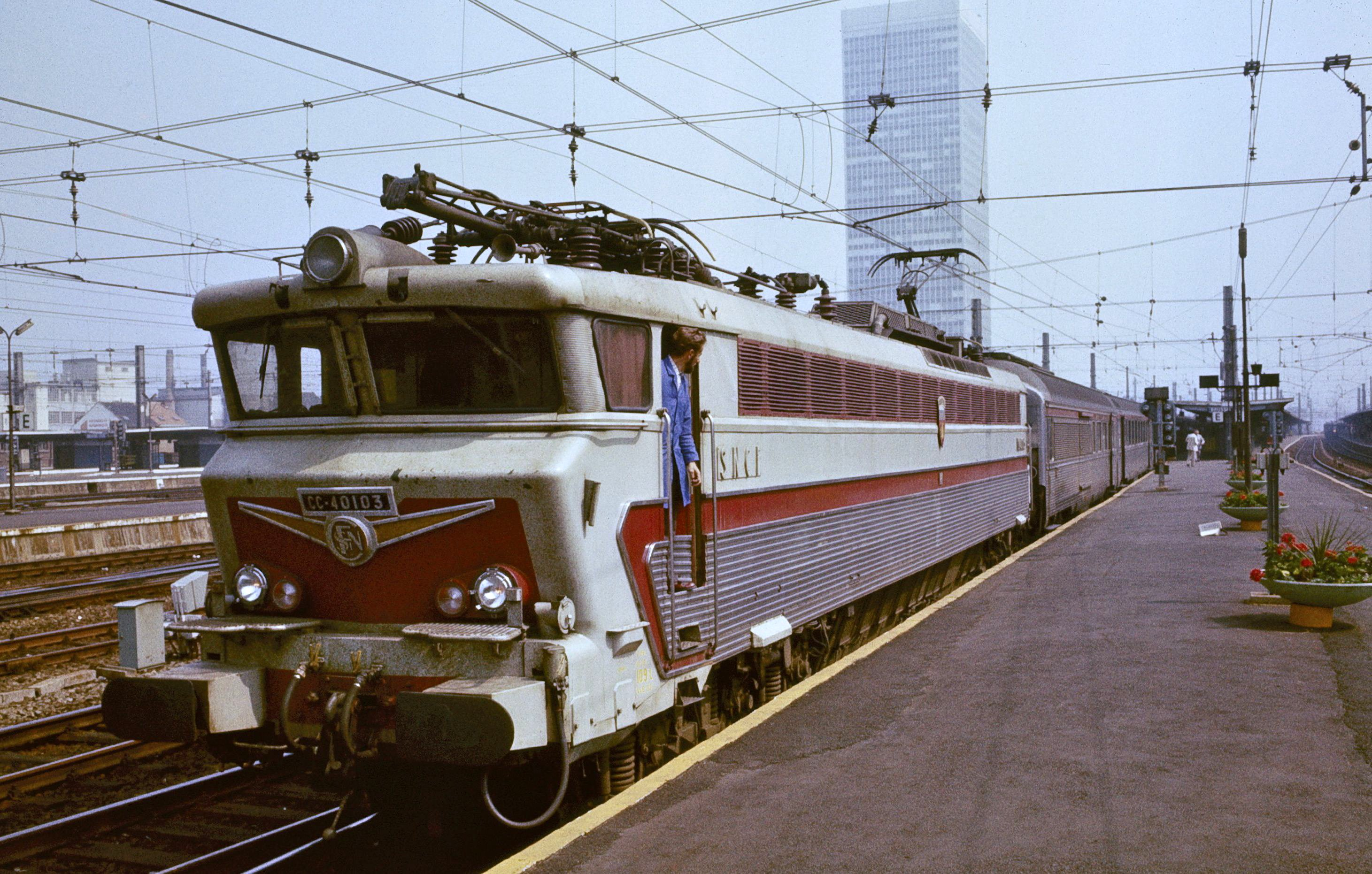 The Trans Europe Express train L'Oiseau Bleu (The Blue Bird) about to depart Brussels' Gare du Midi/Zuidstation for Paris. The train is headed by SNCF CC 40100-class quadruple-voltage locomotive number CC 40103, built in 1964.